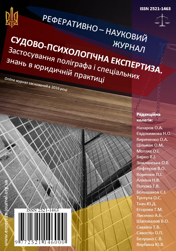 Forensic psychological examination. The use of polygraph and special knowledge in legal practice